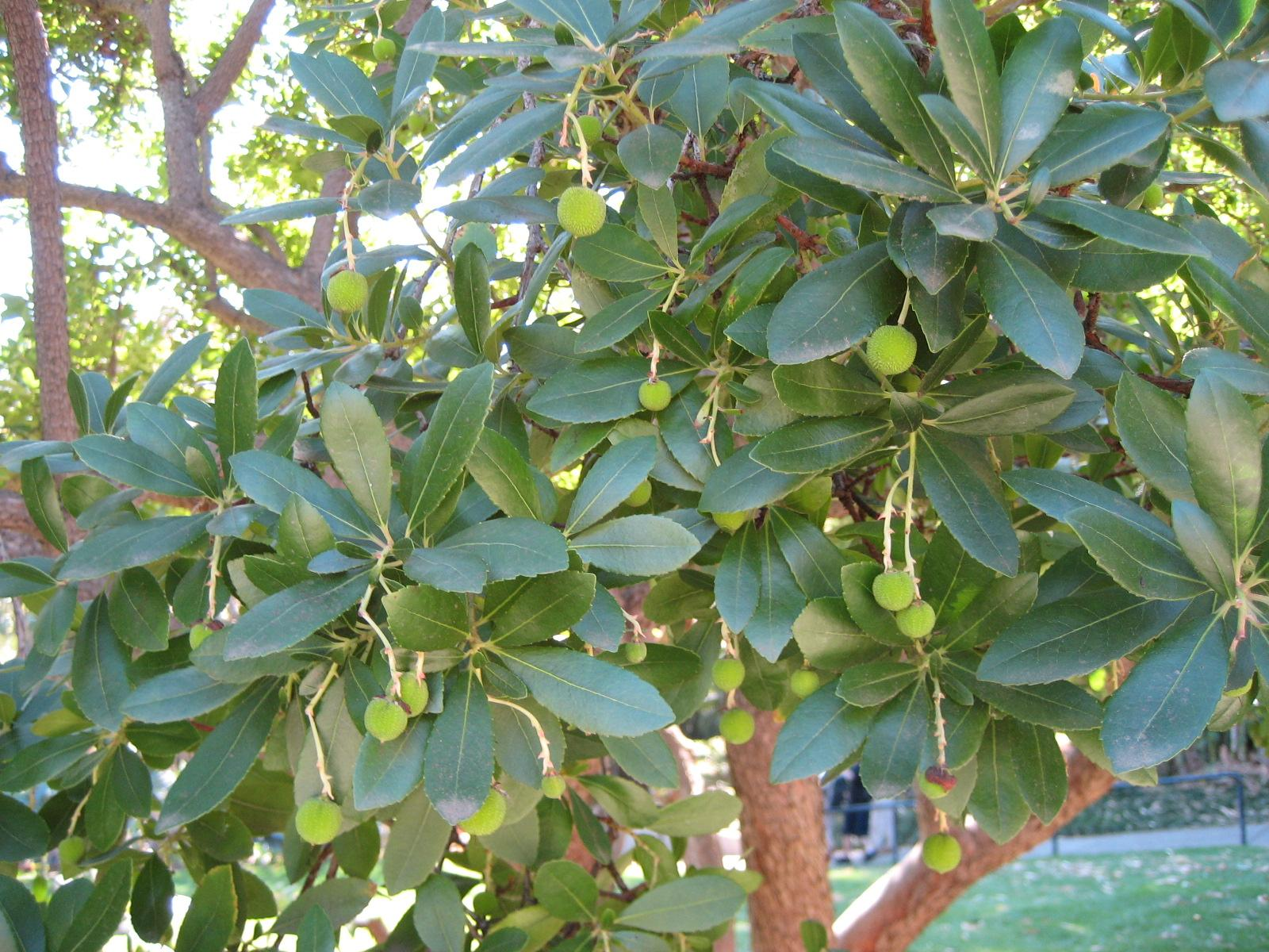 Photographed at Huntington Gardens (Los Angeles) in March